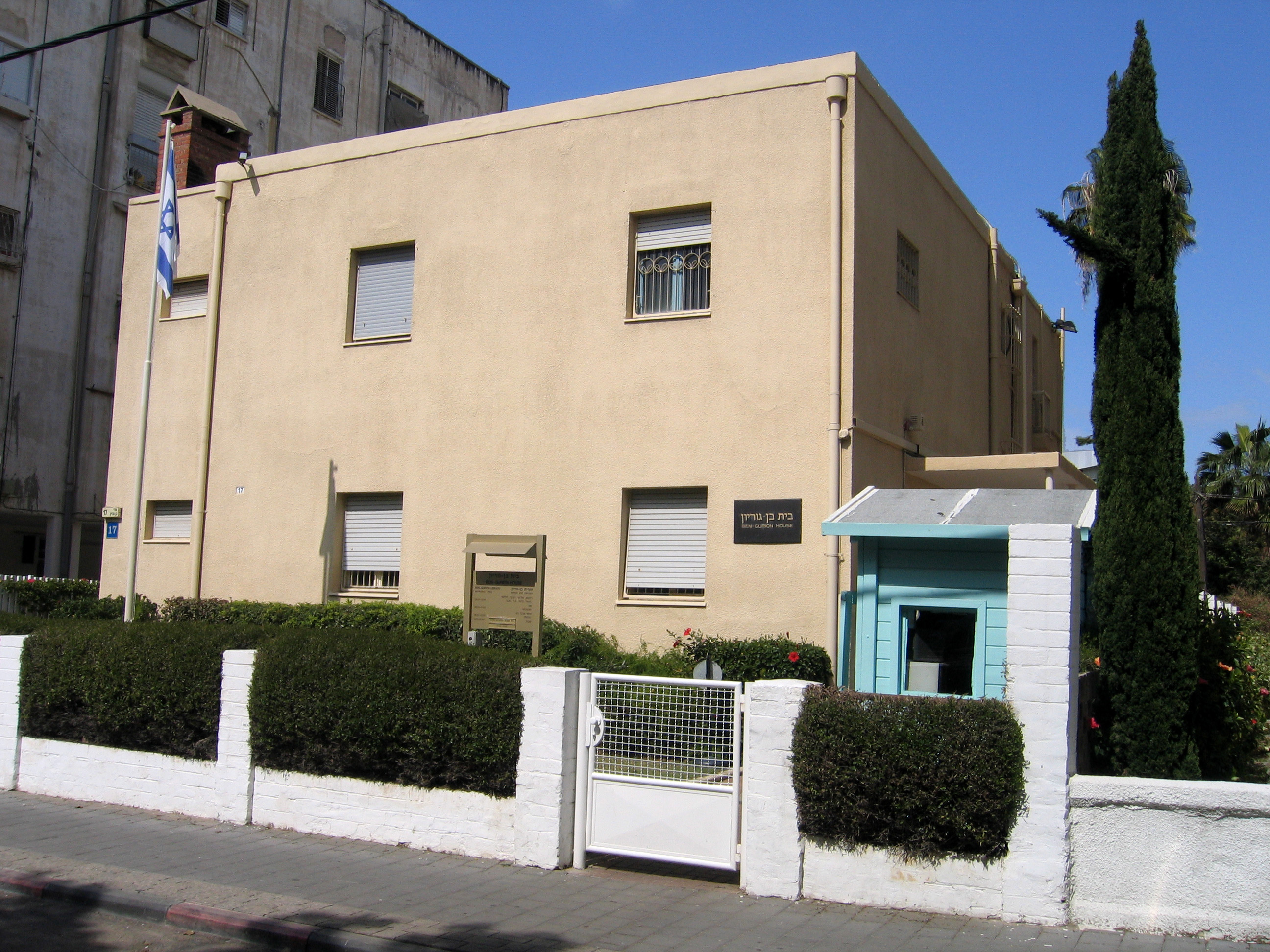 David Ben Gurion's House at Tel Aviv-Yaffo